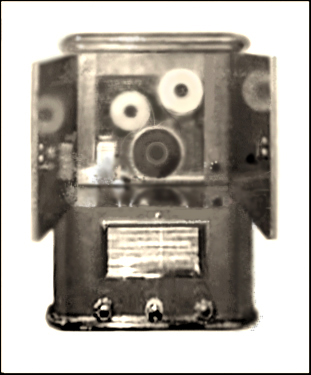 Radio "Talking Paper", 1941. USSR. Photo from the brochure of 1943.